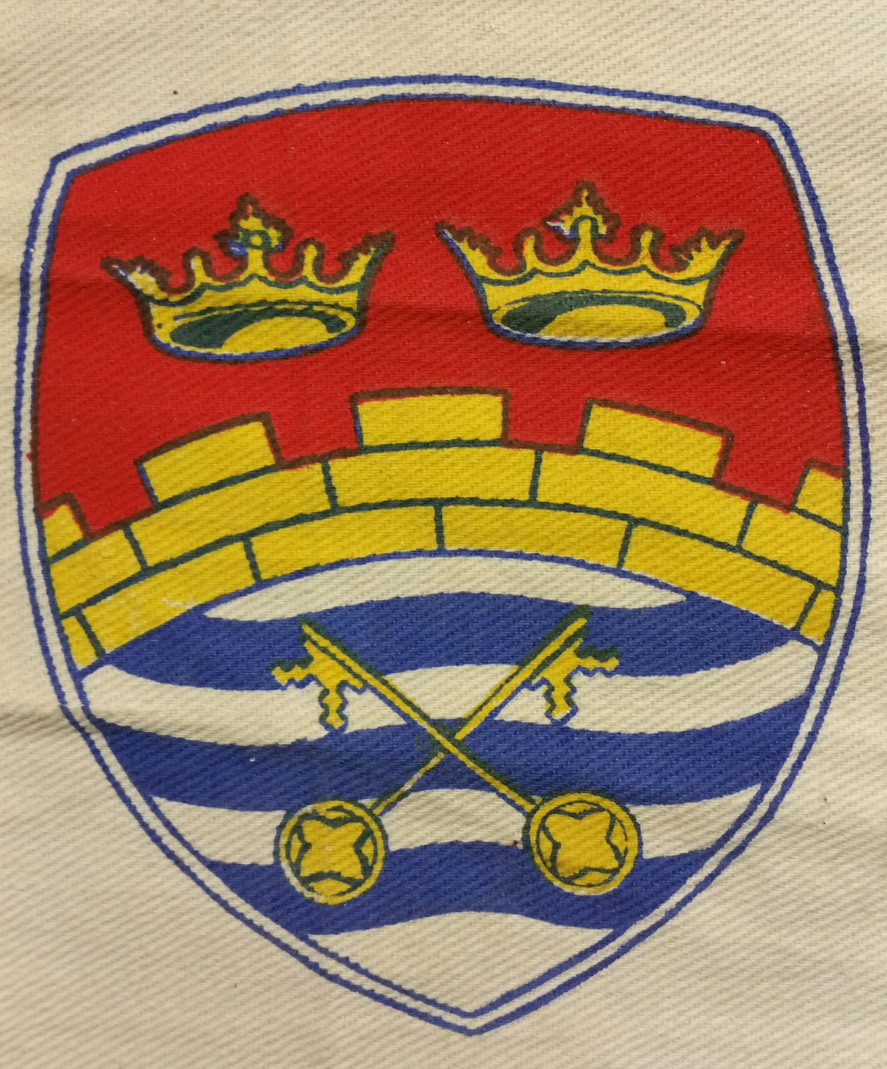 Mid-Anglia Constabulary Coat of Arms